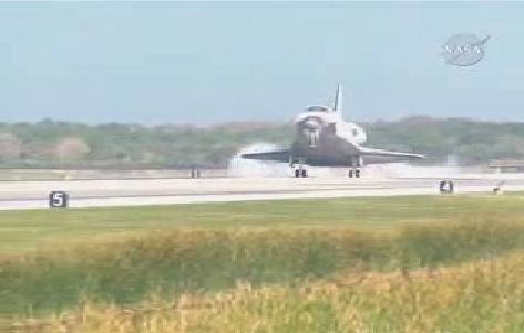 Landing of STS-122